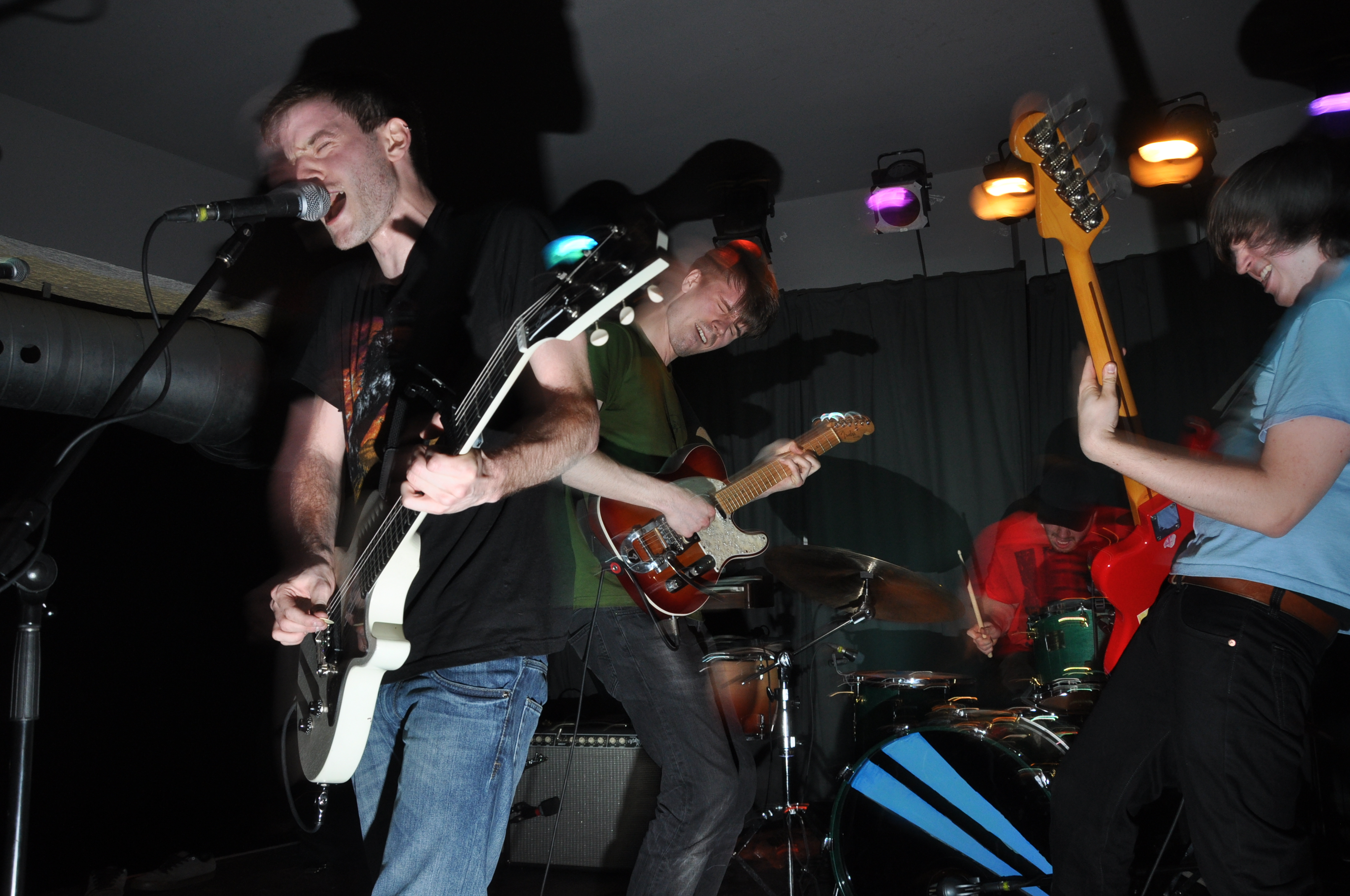 The punk rock band PUP (then known as Topanga) performing at Mavericks Bar on Rideau St in Ottawa on April 7, 2012. Pictured from left to right is Stefan Babcock, Steven Sladkowski, Zack Mykula, and Nestor Chumak.